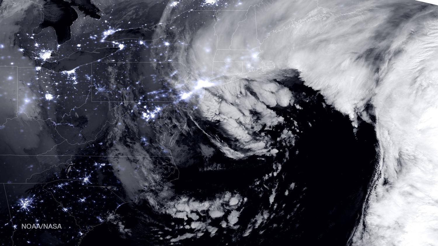 Combined day-night band and high resolution infrared imagery from the NASA-NOAA's Suomi NPP satellite 26 January 2015 nor'easter 06:45Z (1:45 a.m. EST).